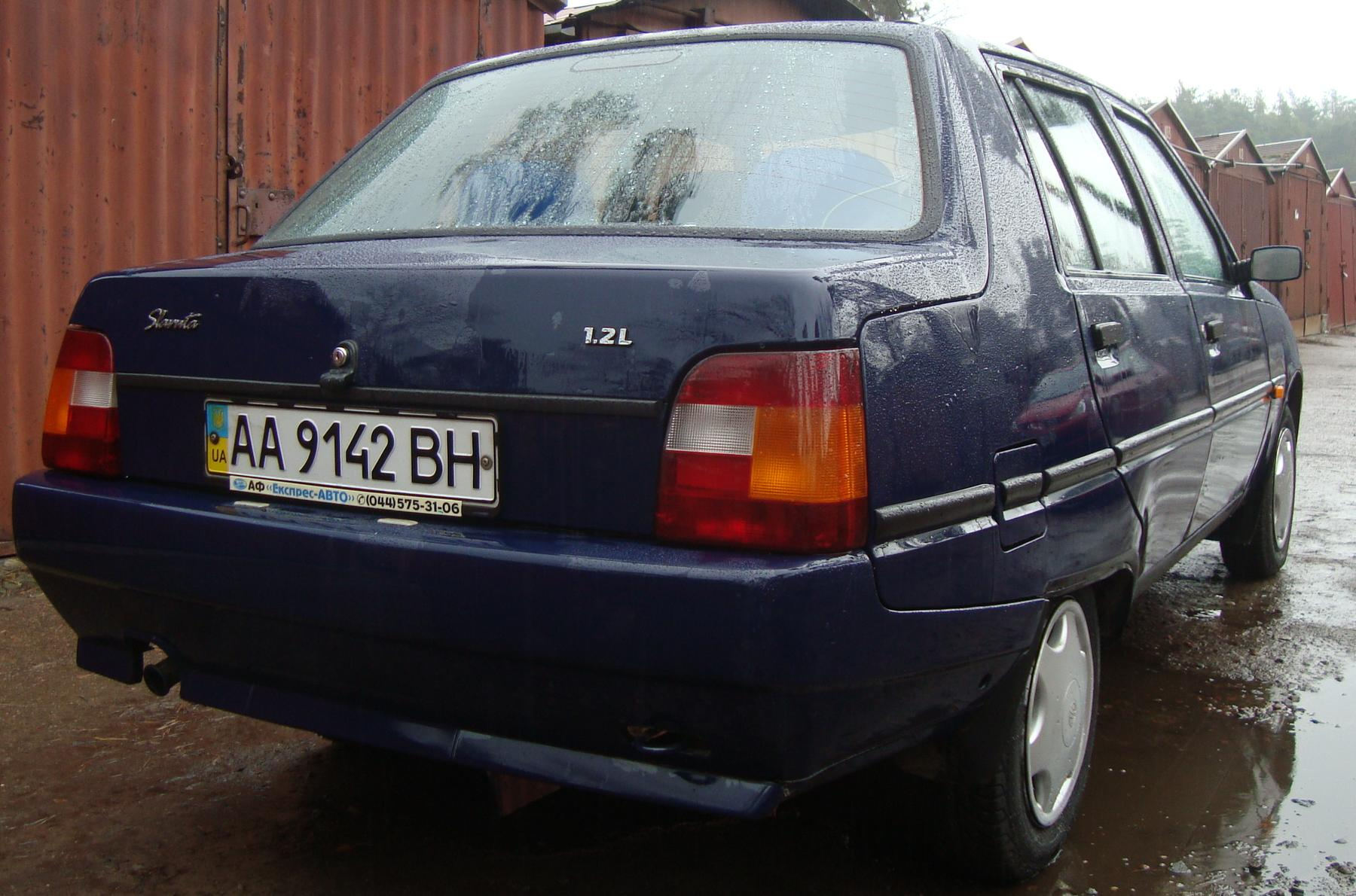 ZAZ-1103 Slavuta